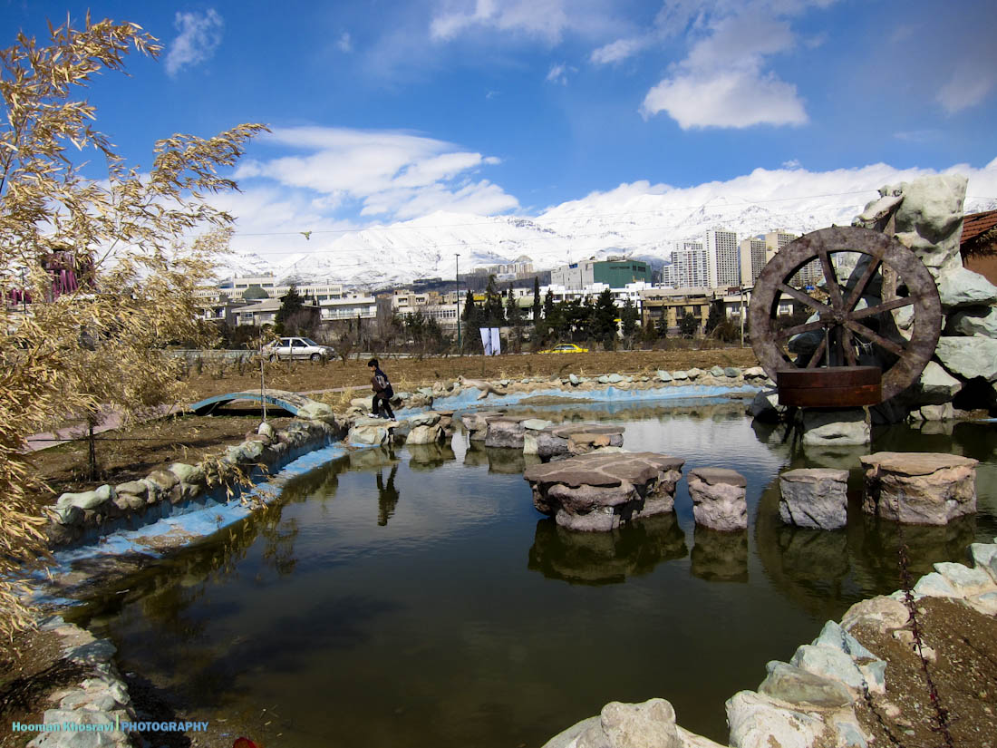 Pardisan Park- Tehran/Iran